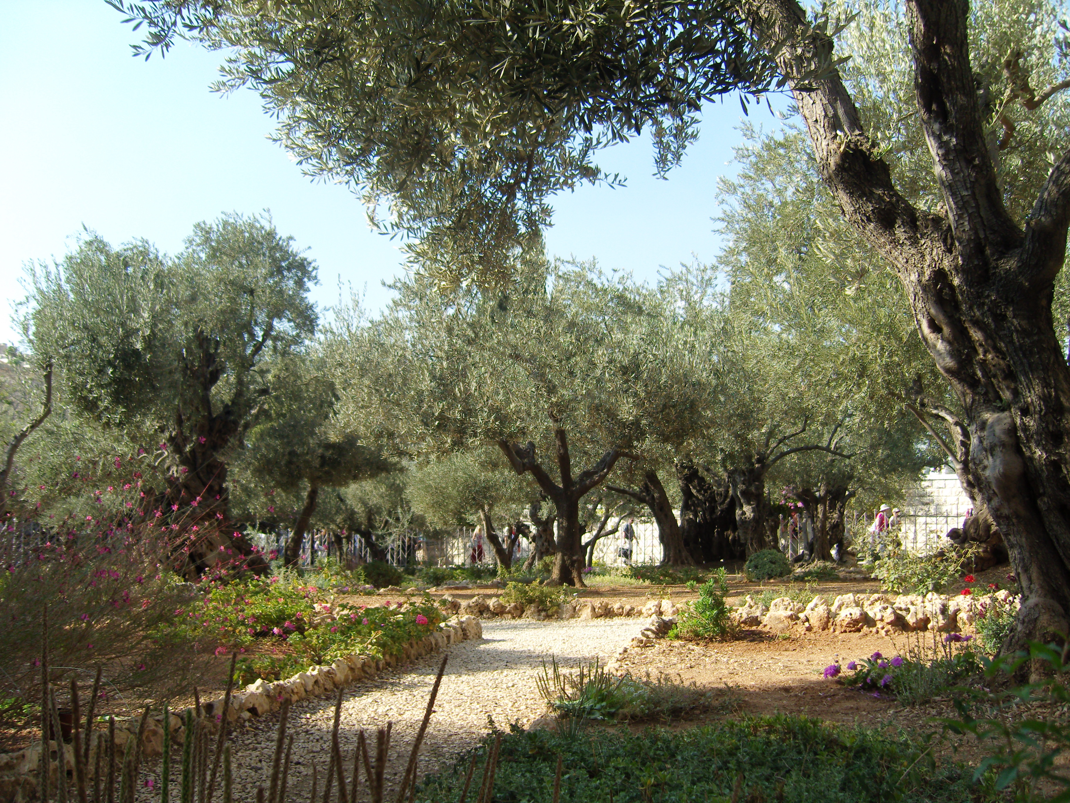 Trees in Gethsemane, Jerusalem